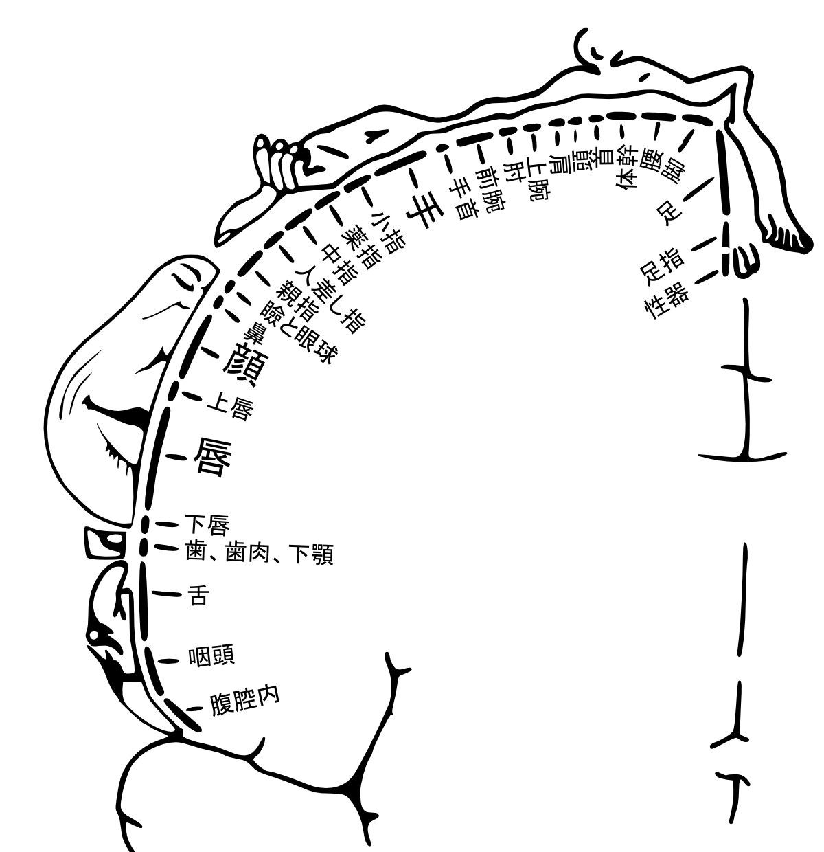 diagram showing position of regions of the human cortex corresponding to the respective afferent nerve region of the body. Writing in Japanese language. 感覚皮質における身体の対応部位を示した図。ペンフィールドのホムンクルス。